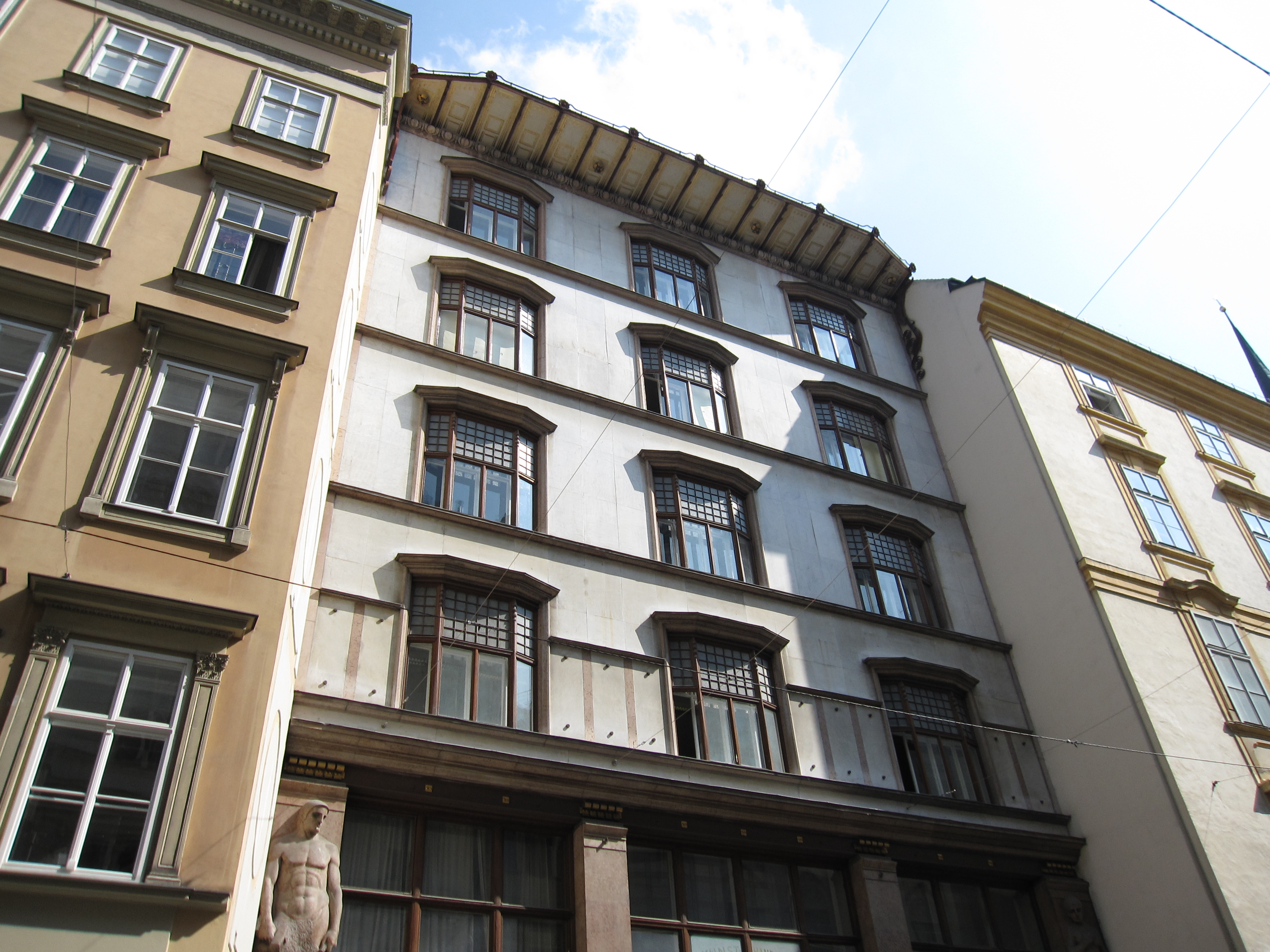 Artaria-Haus at Kohlmarkt 9 in Vienna's I. district.